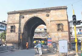 Raipur Darwaja